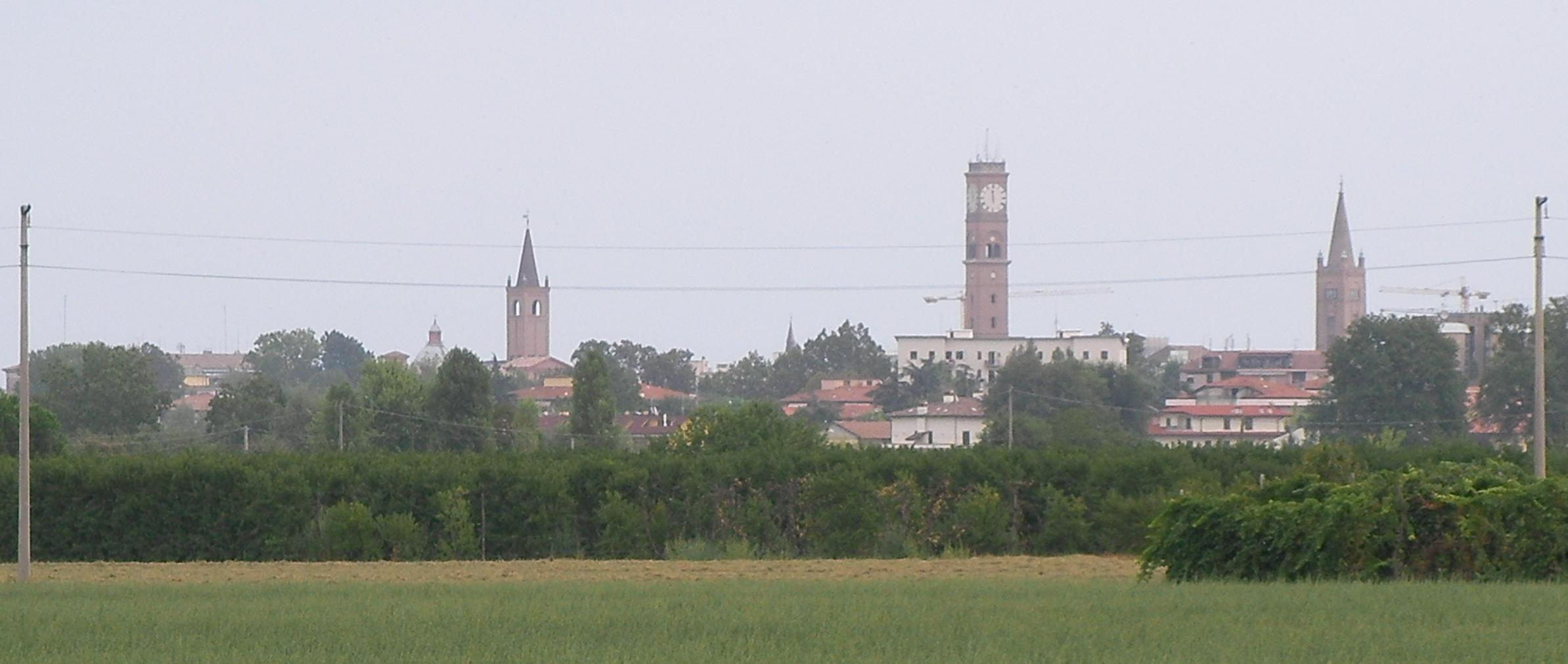 View of Forlì